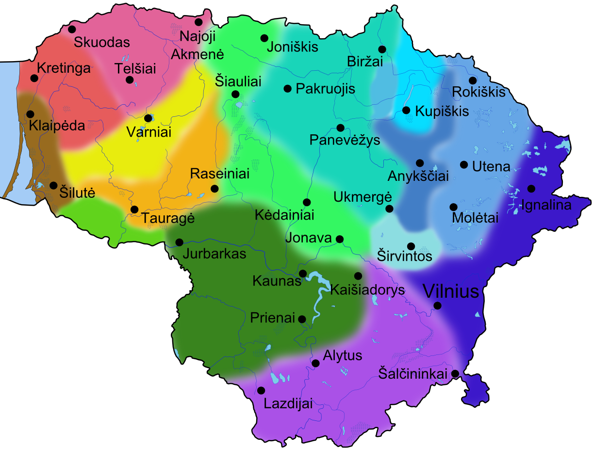 Map of the dialects of the Lithuanian language based on the new classification proposed in 1965 by linguists Zigmas Zinkevičius and Aleksas Girdenis. Samogitian dialect: Western Samogitian Western Samogitian sub-dialect Northern Samogitian Sub-dialect of Kretinga Sub-dialect of Telšiai Southern Samogitian Sub-dialect of Varniai Sub-dialect of Raseiniai Aukštaitian dialect: Western Aukštaitian Sub-dialect of Šiauliai Sub-dialect of Kaunas Sub-dialect of Klaipėda Region Eastern Aukštaitian Sub-dialect of Panevėžys Sub-dialect of Širvintos Sub-dialect of Anykščiai Sub-dialect of Kupiškis Sub-dialect of Utena Sub-dialect of Vilnius Southern Aukštaitian Southern Aukštaitian or Dzūkian sub-dialect